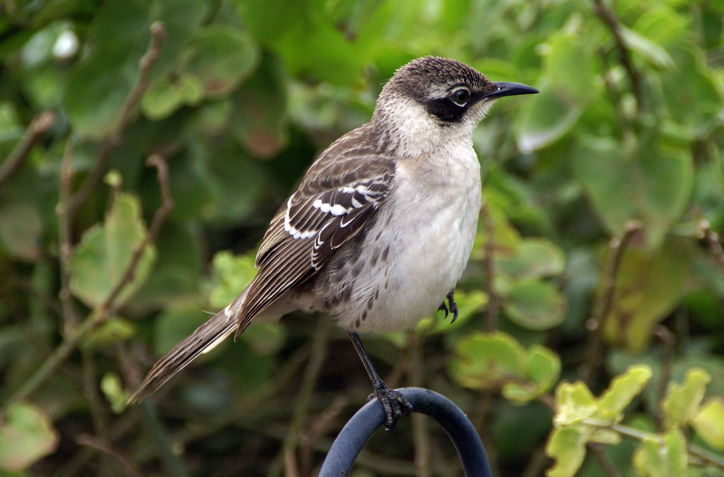 Galápagos Mockingbird (Nesomimus parvulus) on a perch.